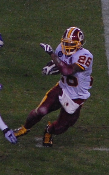 Author: Ruffin Bailey, Source: Self-taken